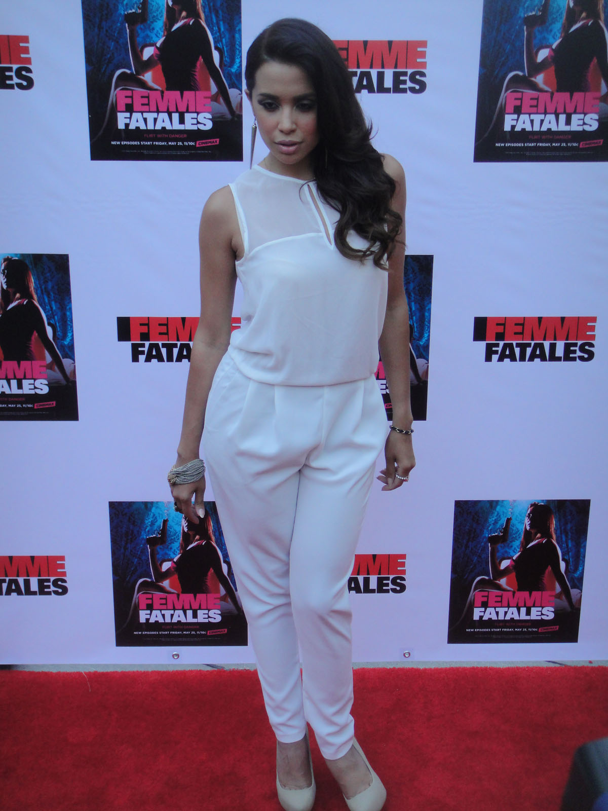 Femme Fatales Red Carpet - Mirtha Michelle